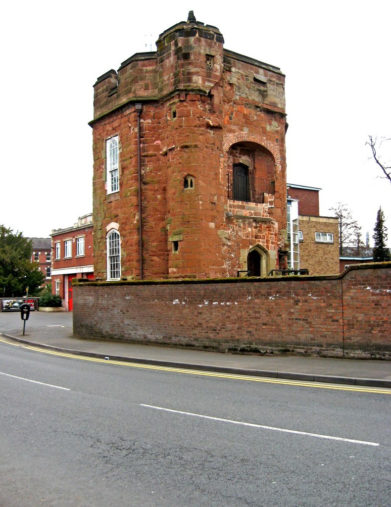 Caldwall (or Caldwell) Tower, Castle Road, Kidderminster